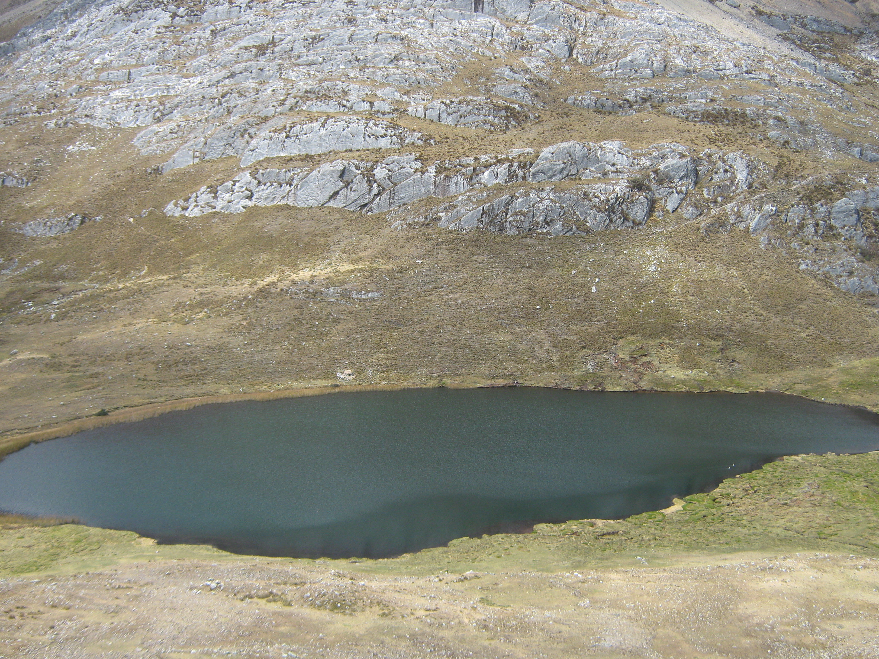 Laguna Yanacocha